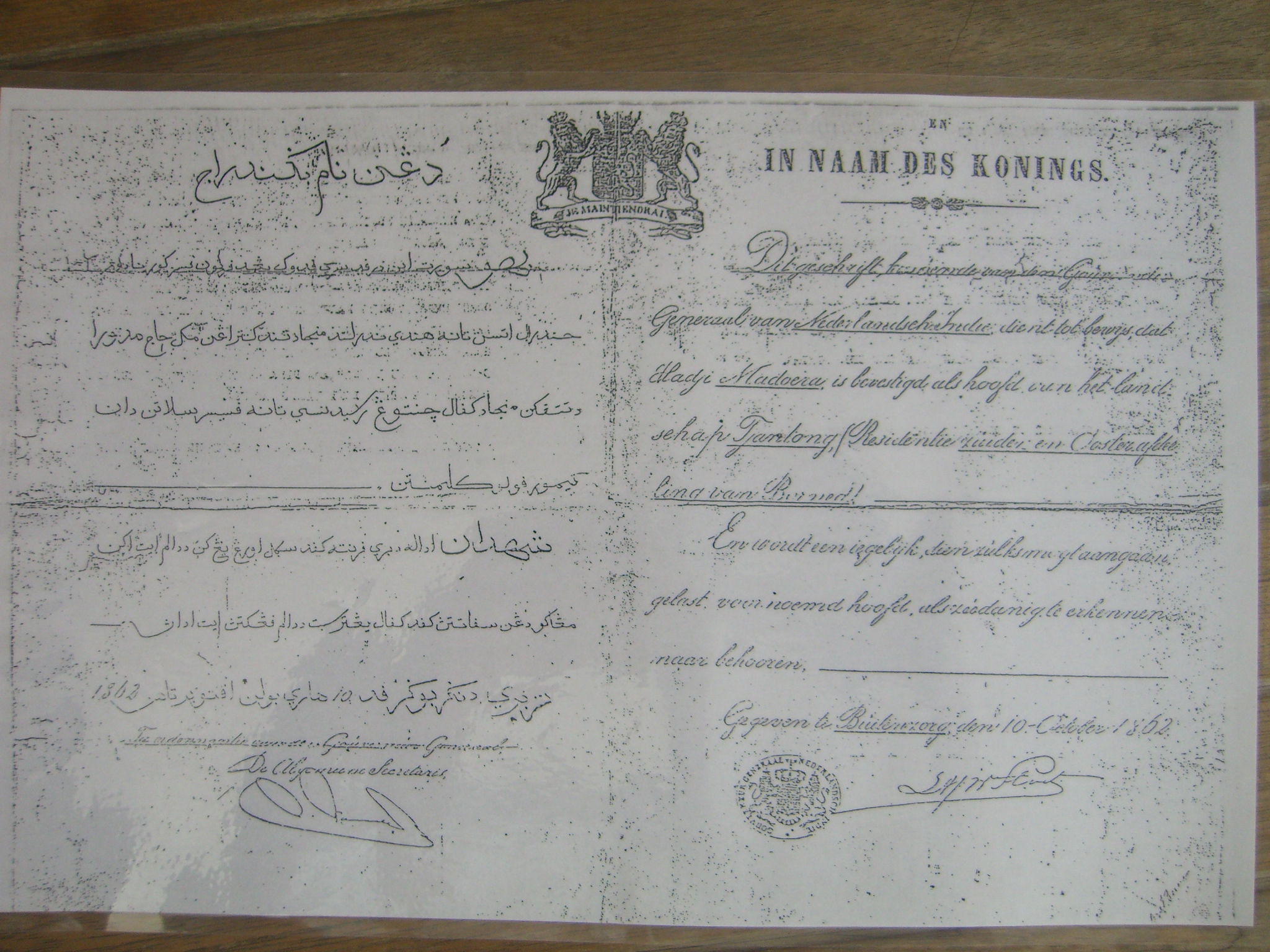 IN NAAM DES KONINGS